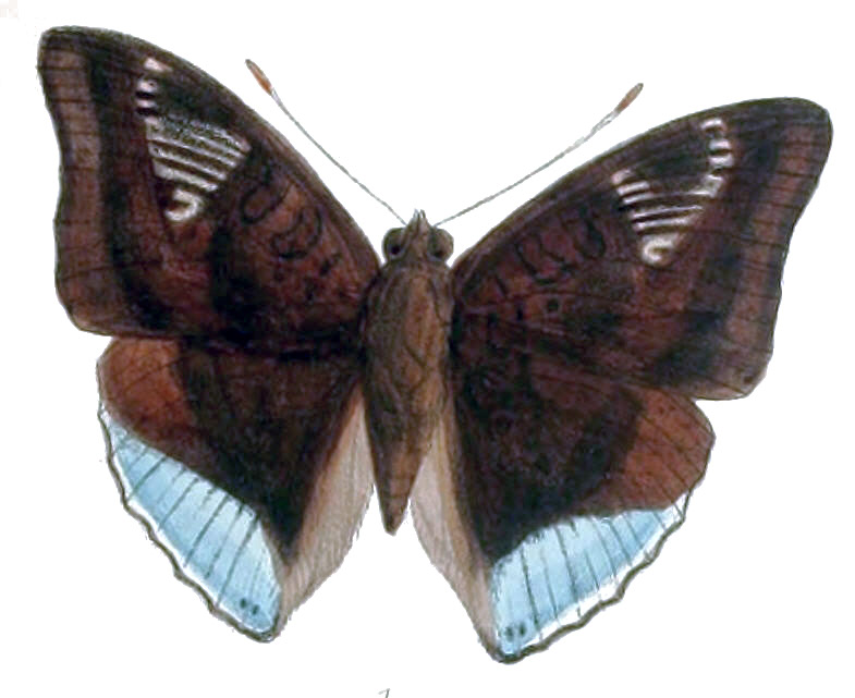 Euthalia phemius